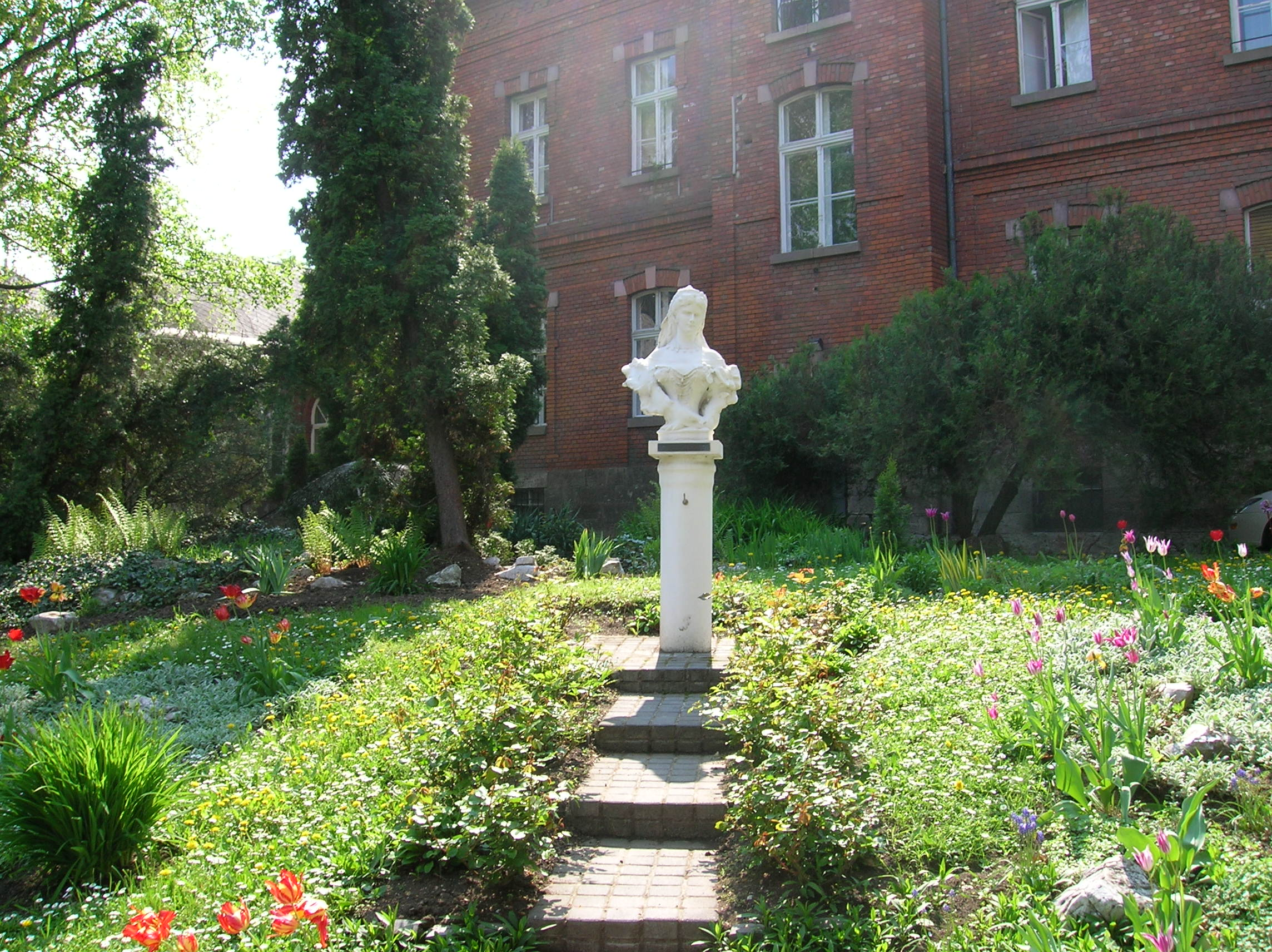 Statue of Queen Elisabeth ("Sissi") in the park of Semmelweis Hospital, Miskolc, Hungary.